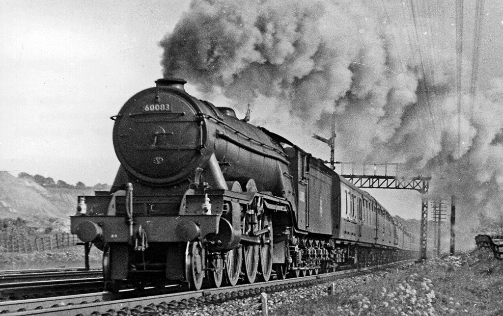 Down 'Northumbrian' Express at Metal Bridge, north of Ferryhill. View southward, towards Ferryhill, Darlington and the South; ex- North Eastern ECML. Gresley A3 Pacific No. 60083 'Sir Hugo' makes a fine sight on the Down 'Northumbrain', which left King's Cross at 12.30 and on weekdays conveyed through coaches for the Tyne Commission Quay, connecting with maritime services to Scandinavia.